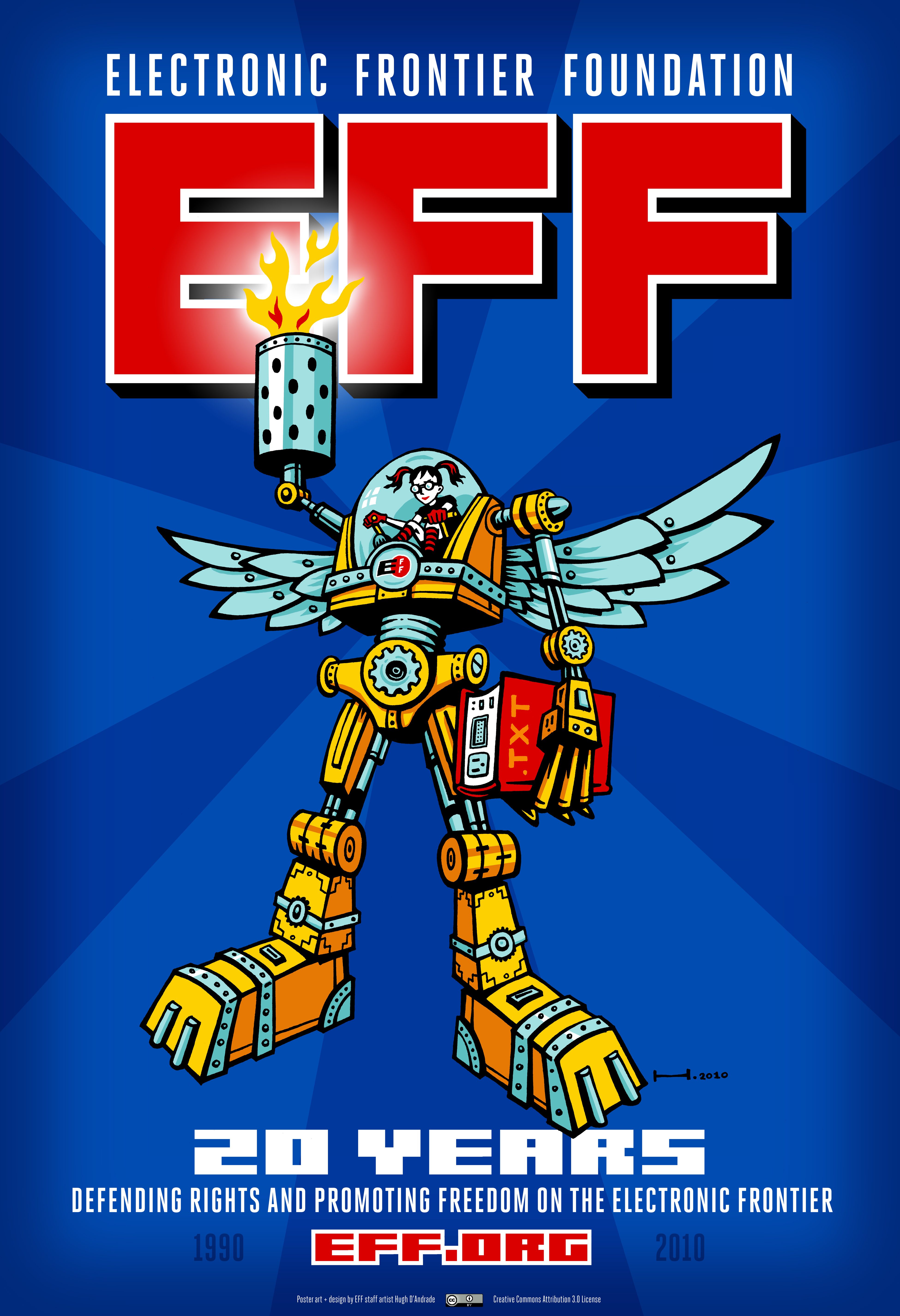 Hugh D'Andrade's design to commemorate Electronic Frontier Foundation's 20th Birthday.